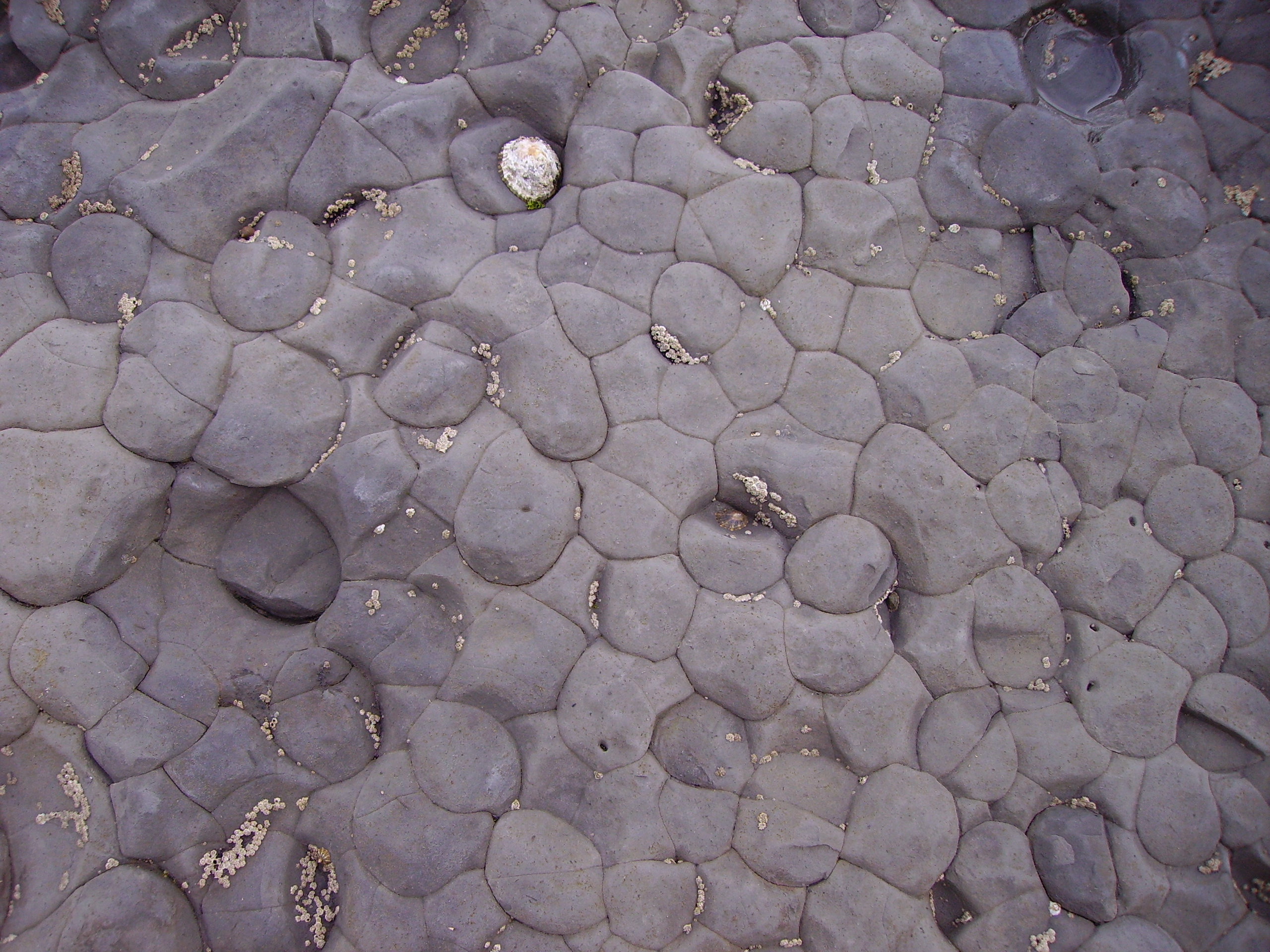 Photographer: User:Ballista